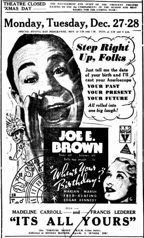 Film advertisement in the Liverpool News newspaper, 23 December 1937 edition.